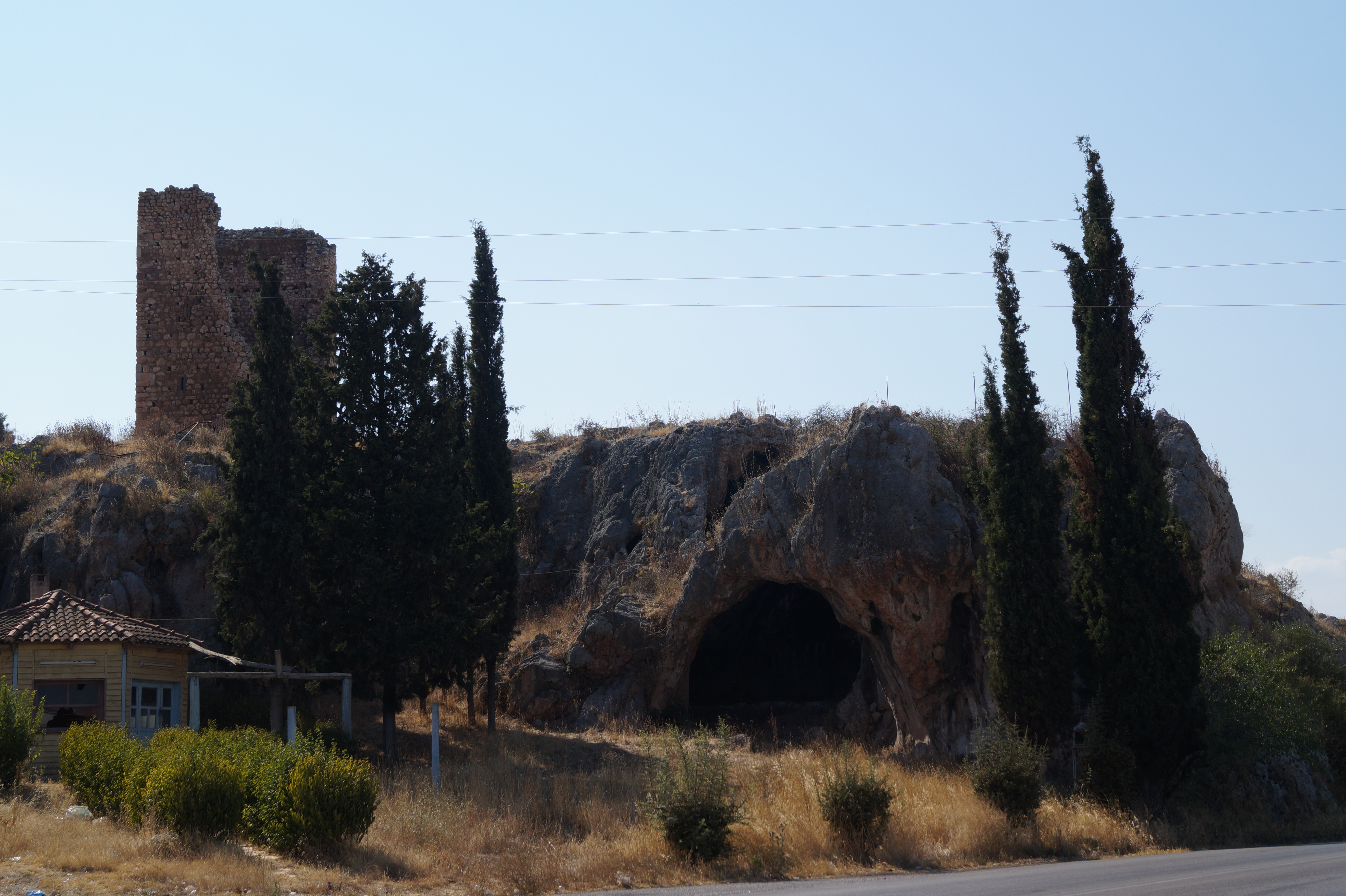 Aliartos, Greece: Cave and medieval tower east of the city.